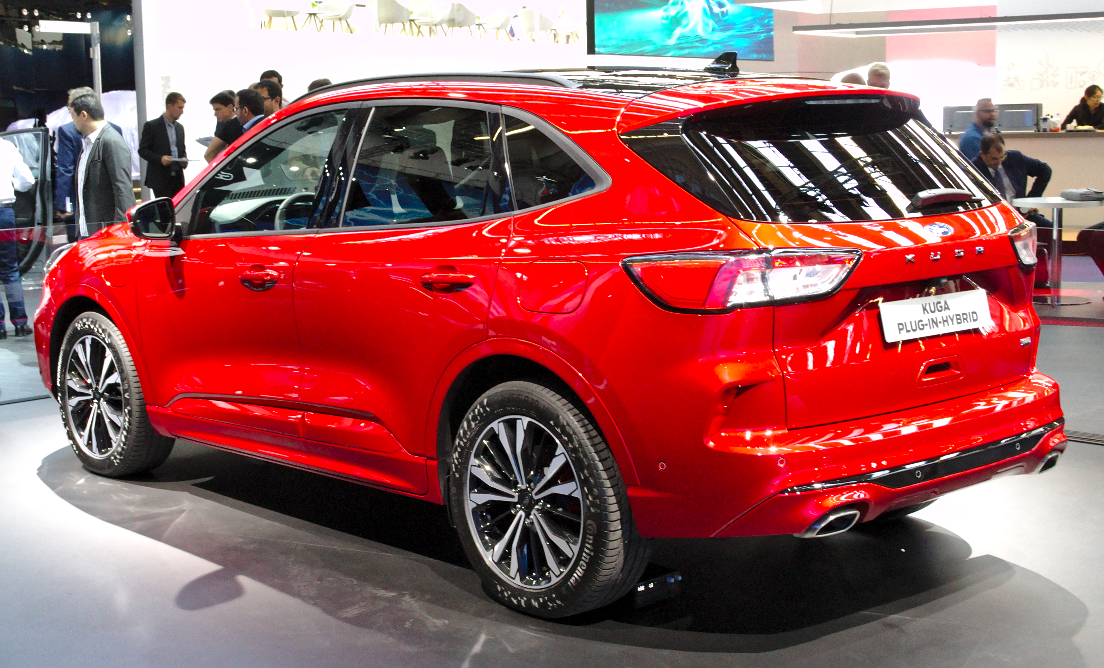 Ford_Kuga_(third_generation) at IAA 2019